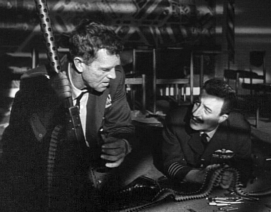 General Jack D. Ripper (Sterling Hayden) shares an intimate moment with Group Captain Lionel Mandrake (Peter Seller) in in Stanley Kubrick's 1964 film, Dr. Strangelove.